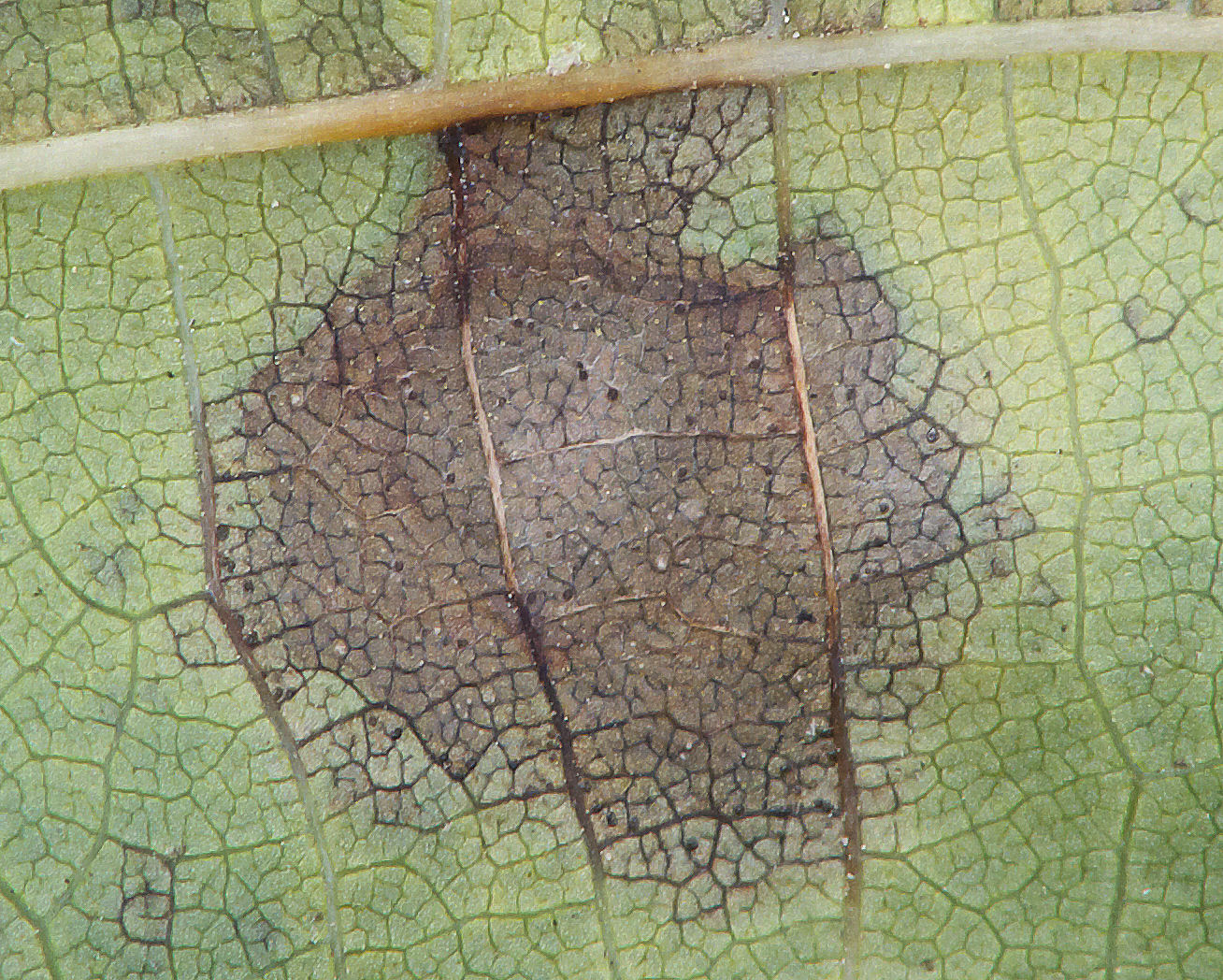 Gnomonia leptostyla at Juglans regia backside leaf